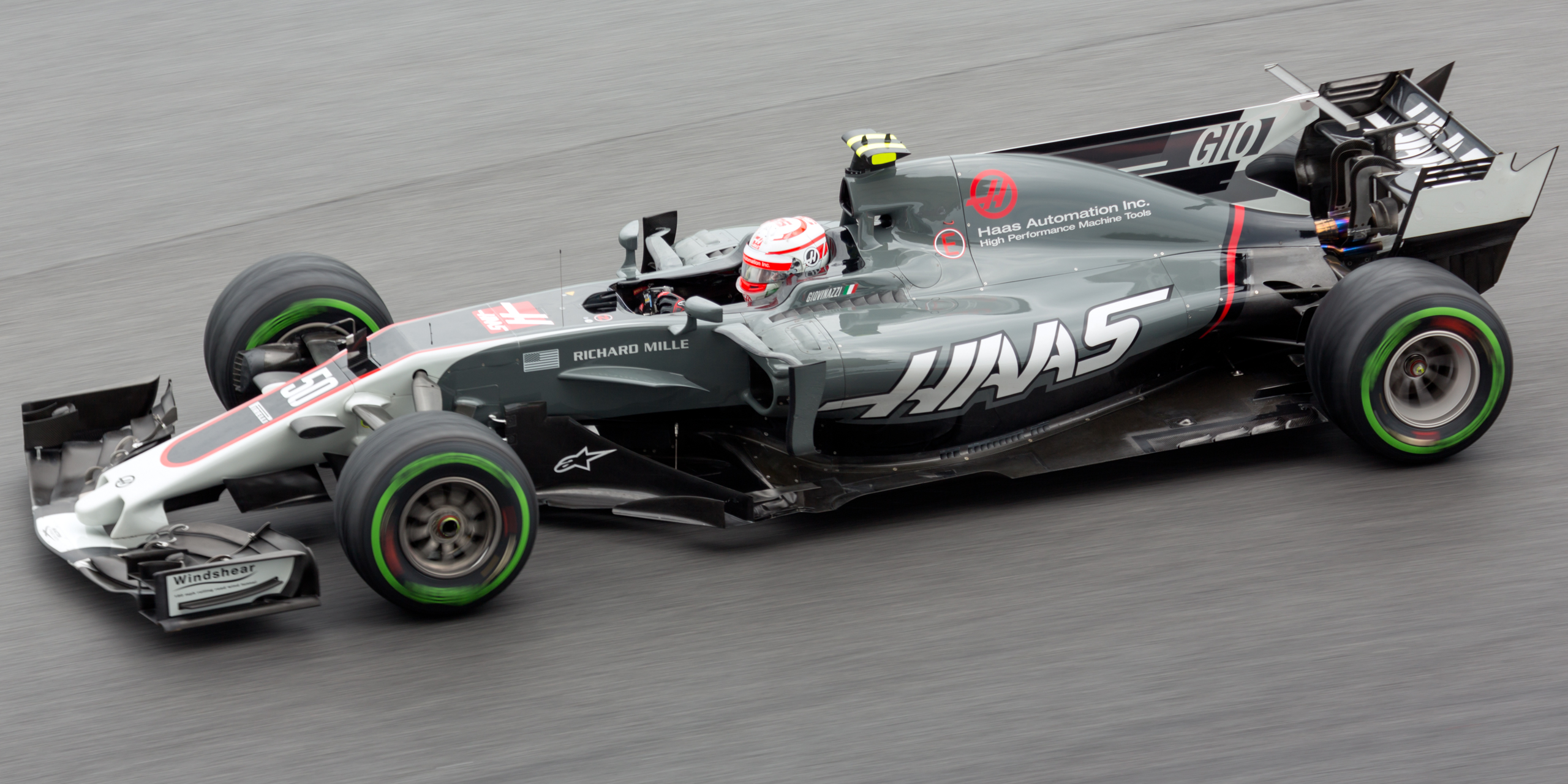 Formula One 2017 Round 15 Malaysian GP: Antonio Giovinazzi (Haas F1 Team)